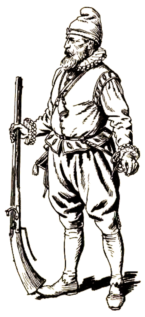 French Soldier - XVI Century